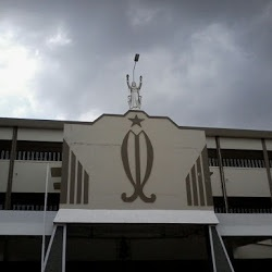 Mains